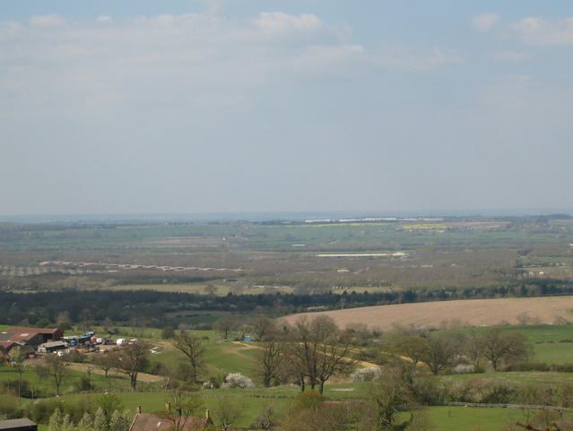 RMD Kineton All of this square is within restricted MoD land and not accessible to the public. The array of sheds just left of centre are part of the storage facilities on this site. For now this distant view from the Edge Hill escarpment is probably about the only visibility we will get without MoD assistance.